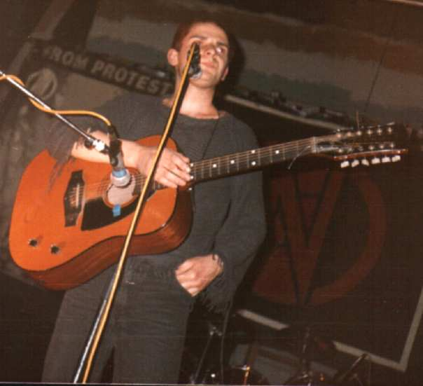 Danbert Nobacon pictured at Birmingham University, May 1986.